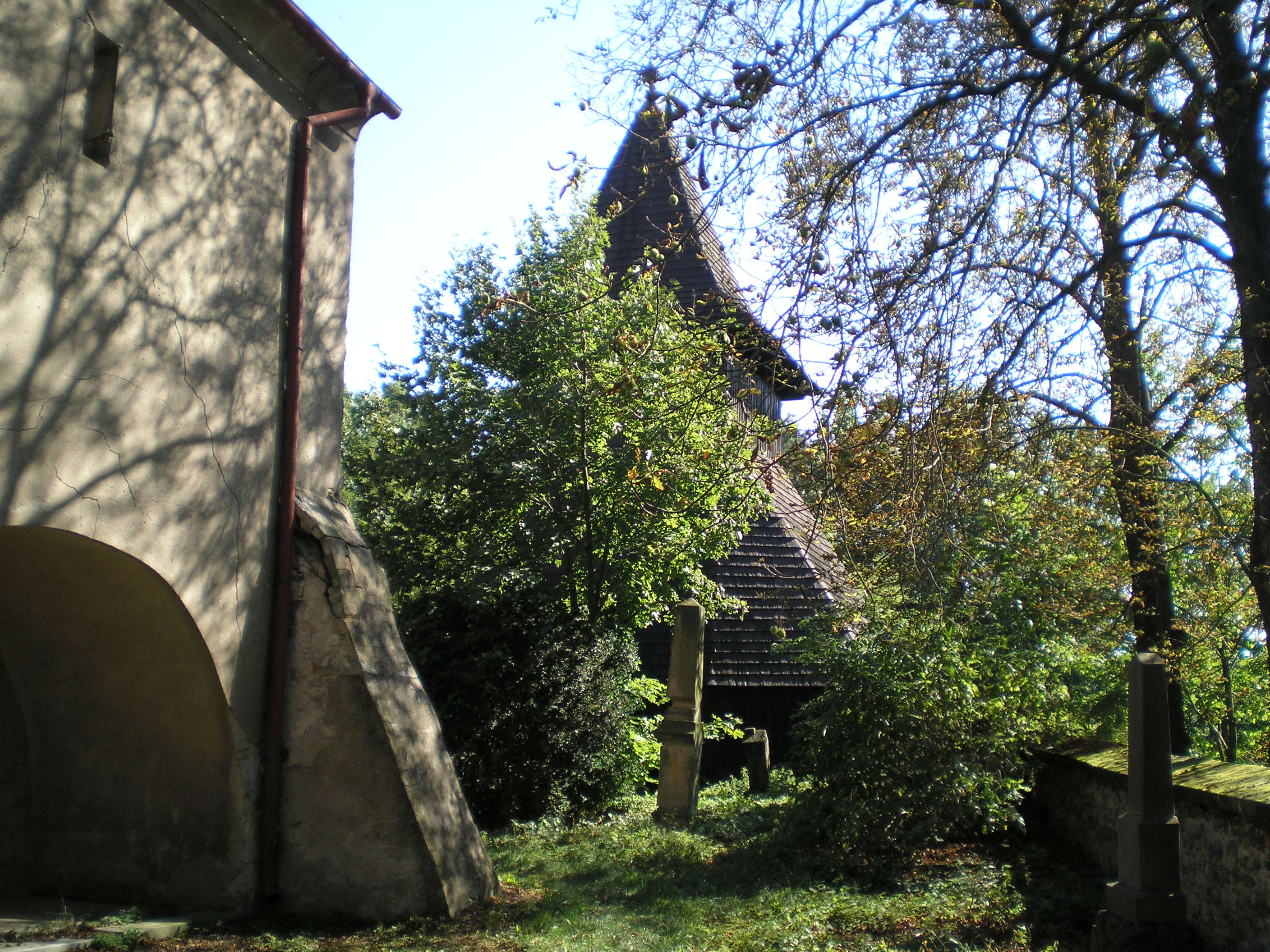 Campanele in Jezbořice